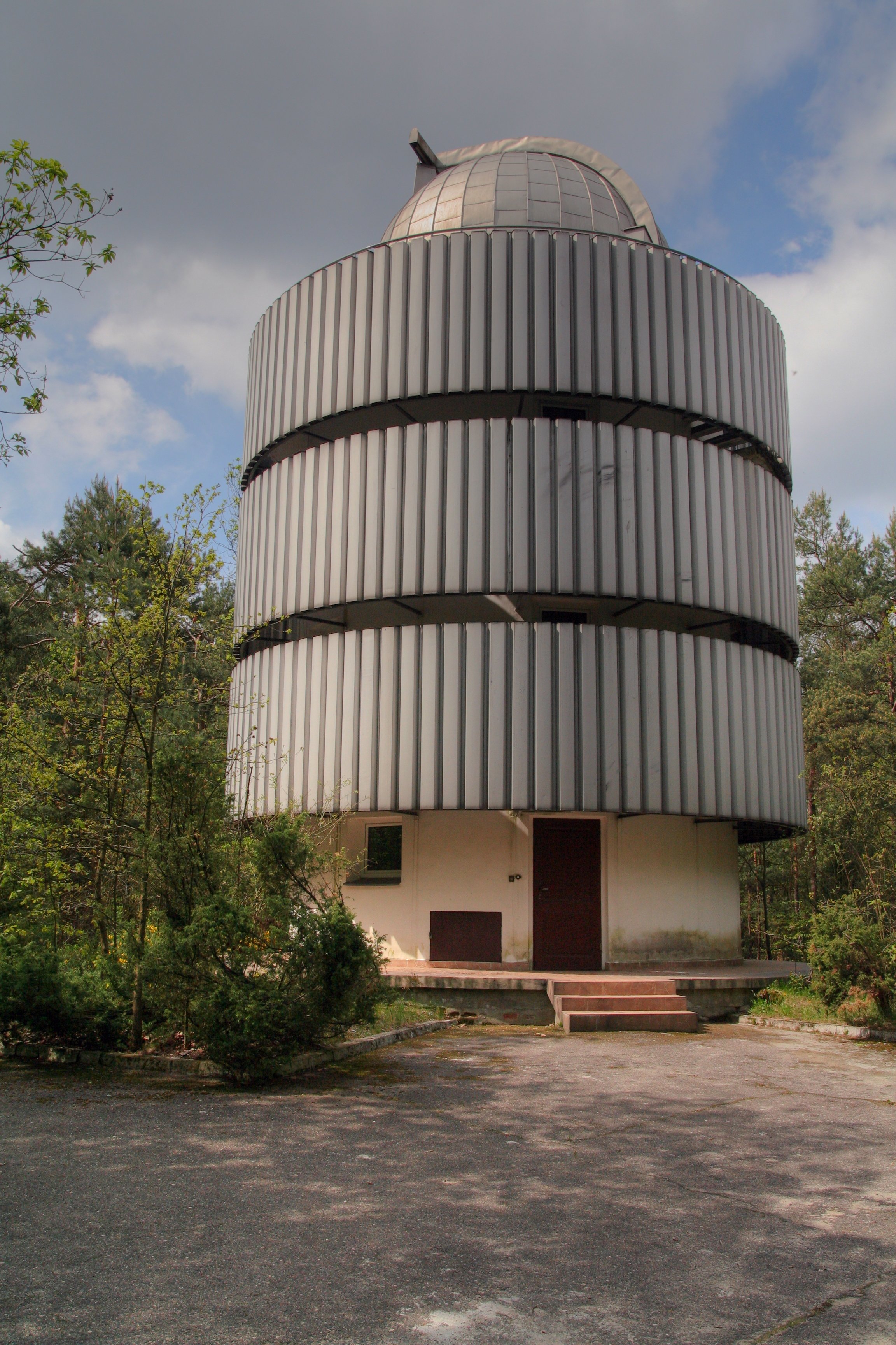 Dome of 0.6m telescope in Ostrowik near Warsaw